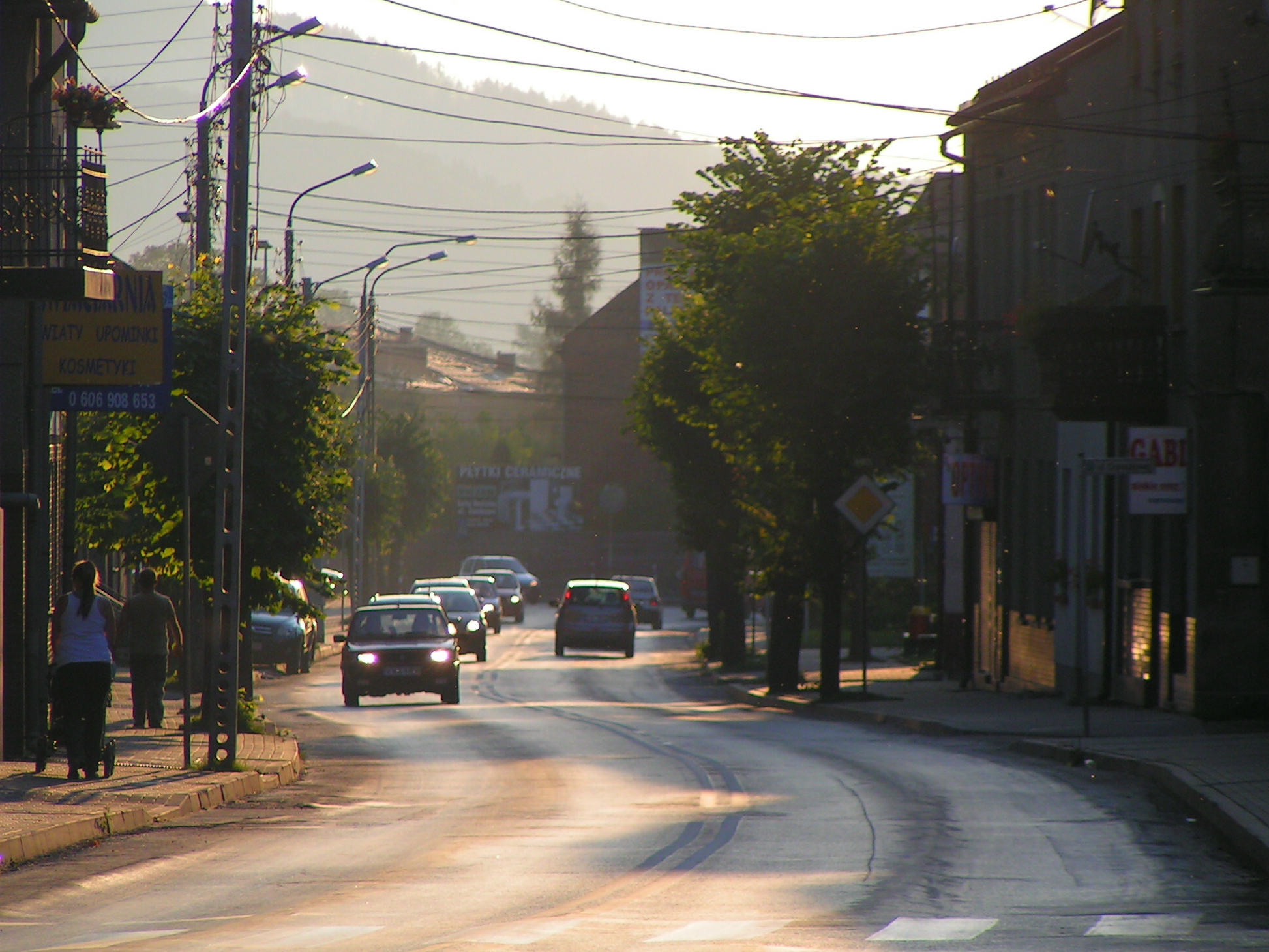 Maków Podhalański, national road no 28 - view towards Sucha Beskidzka